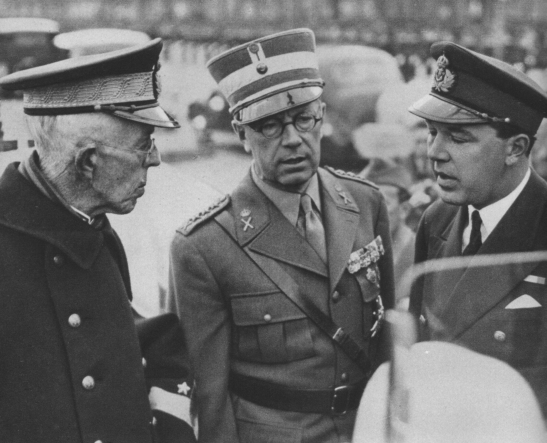 King Gustav V, crown prince Gustav Adolf and prince Bertil